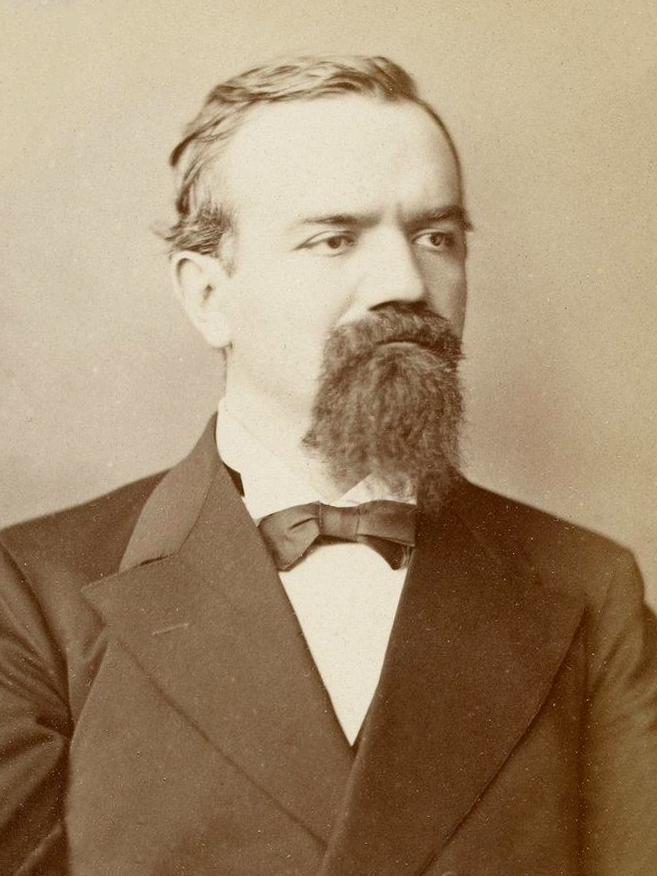 Photograph of Titu Maiorescu, the Romanian Minister of Religious Affairs and Public Education.